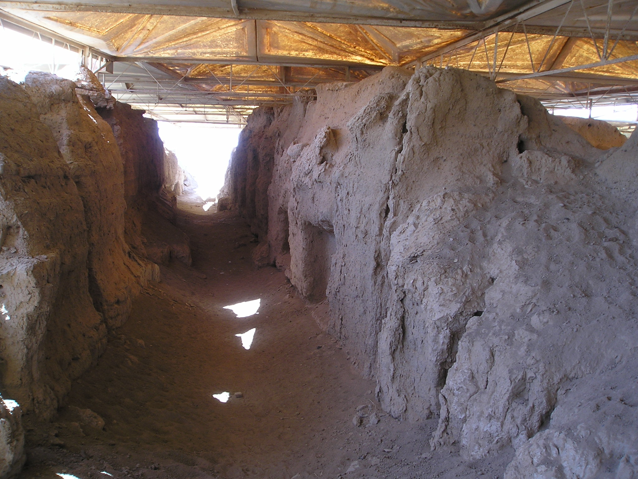 Mari,Syria - a corridor inside the Zimri Lim palace